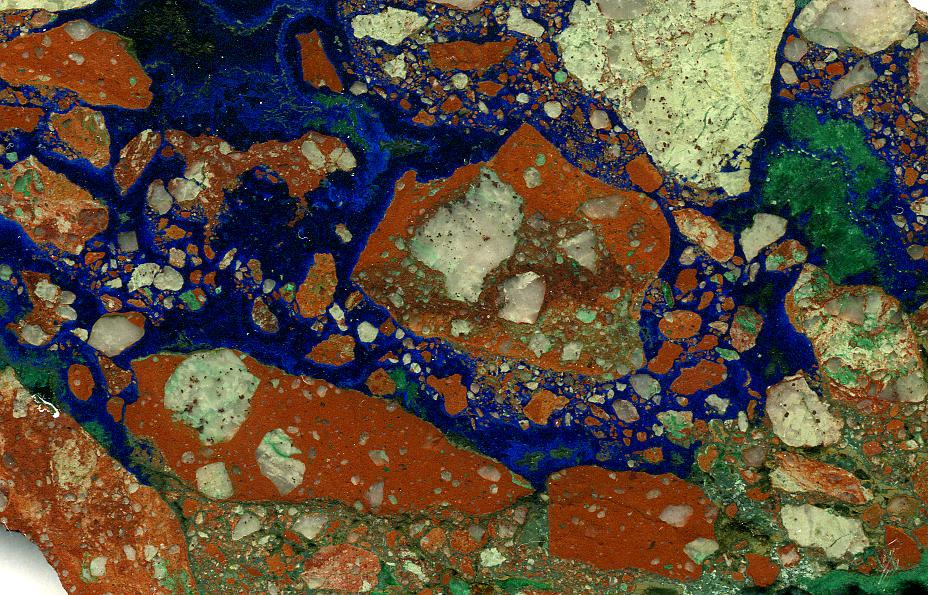 Azurite (blue) and malachite (green) acting as cement minerals in a breccia, from the Morenci Mine in Arizona, USA.